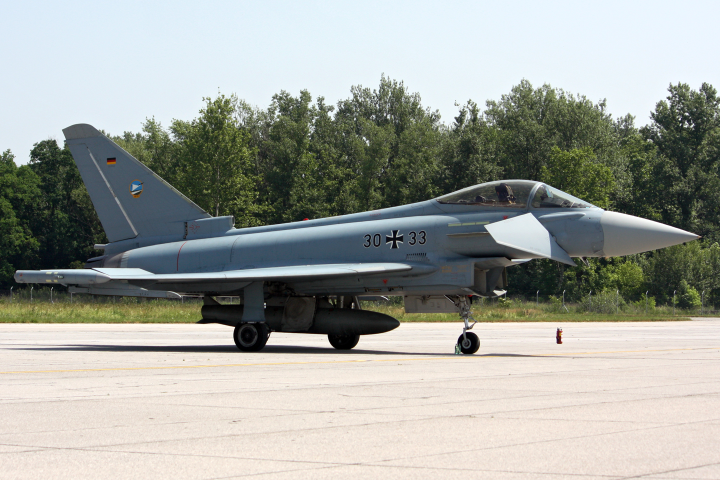 Eurofighter EF-2000 Typhoon taxing to rnwy 05.